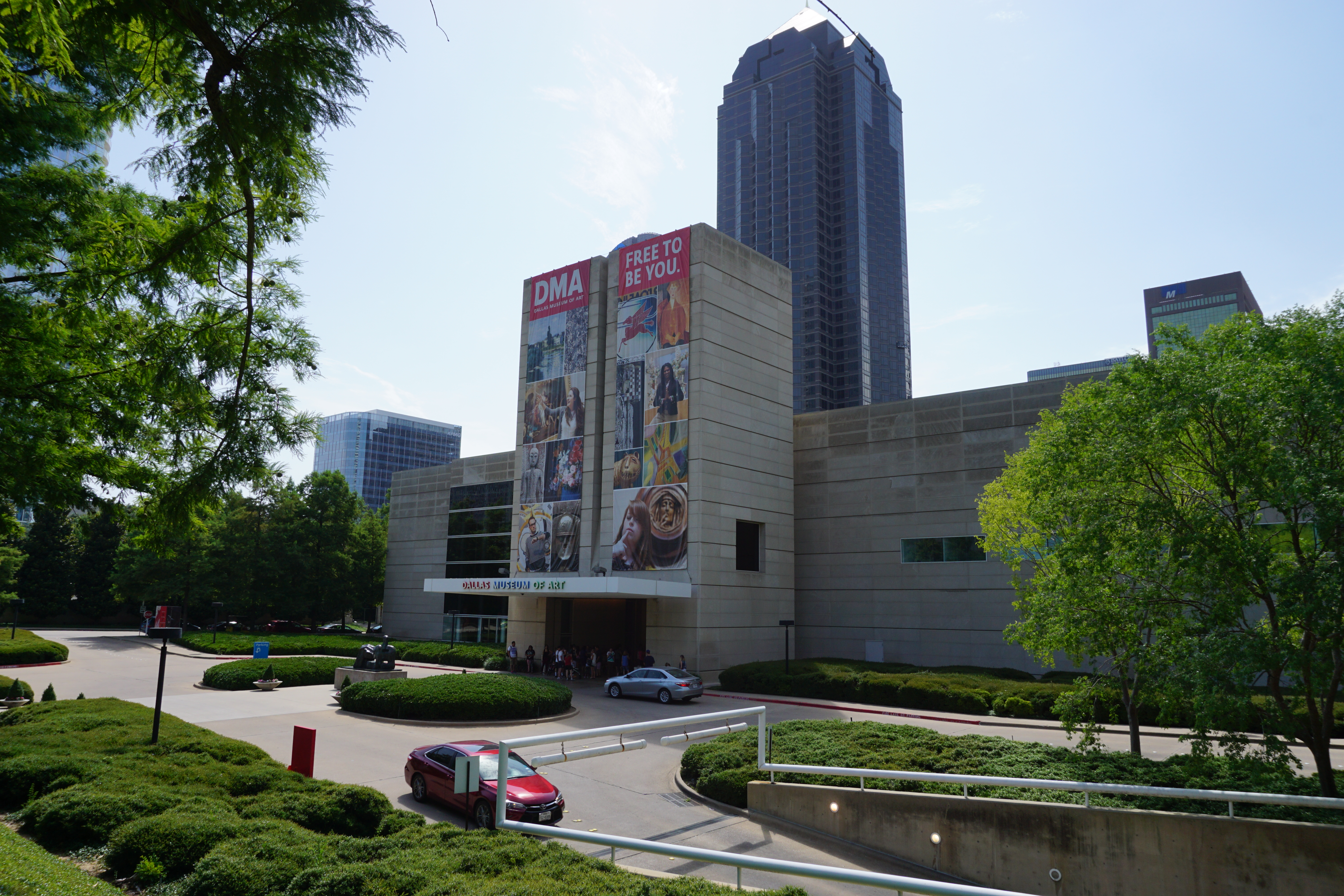 The exterior of the Dallas Museum of Art in Dallas, Texas (United States).